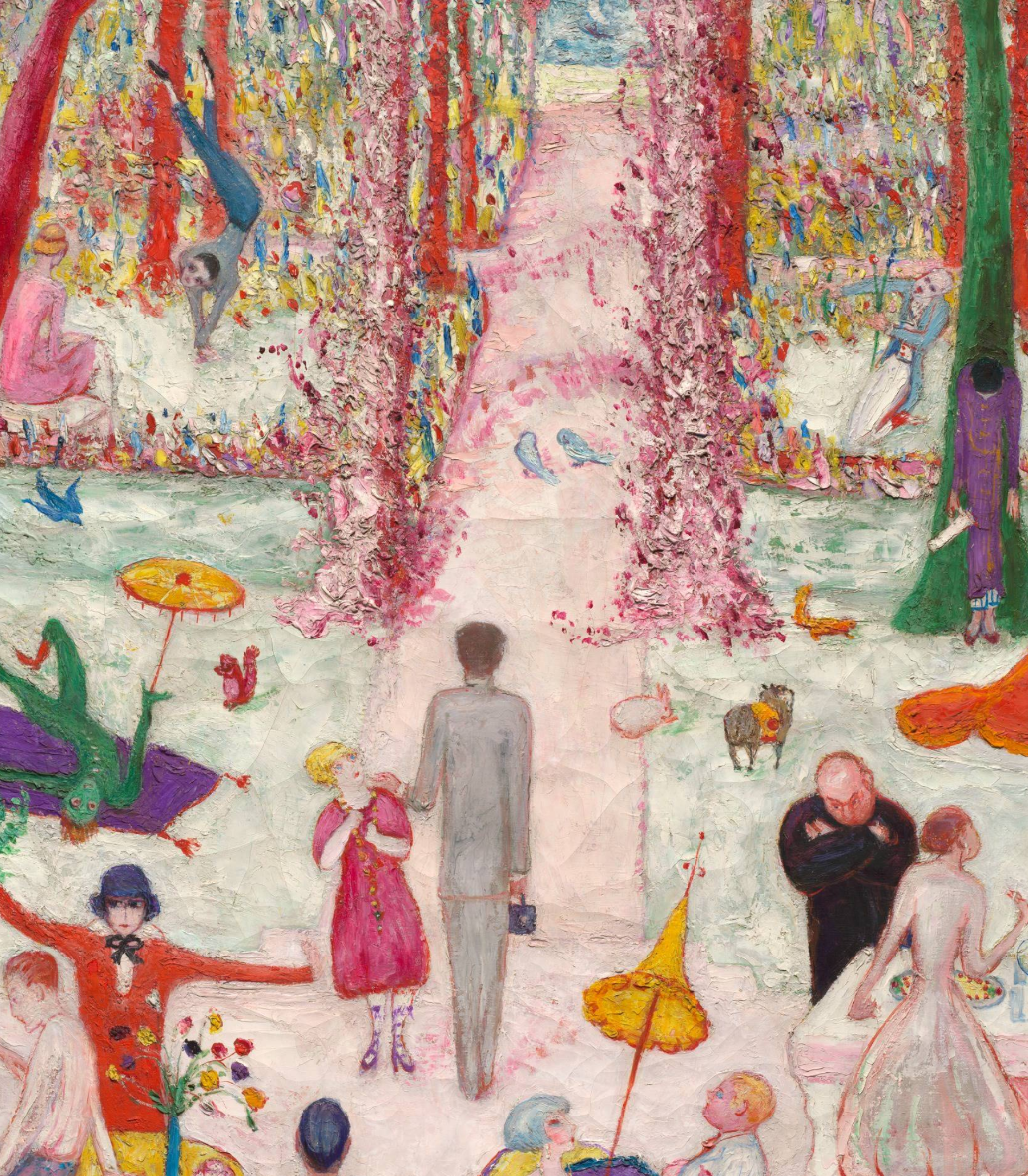 Sunday Afternoon in the Country, by Florine Stettheimer, 1917, Oil on Canvas 128 x 92.5 cm (50 3/8 x 36 7/16 in.)